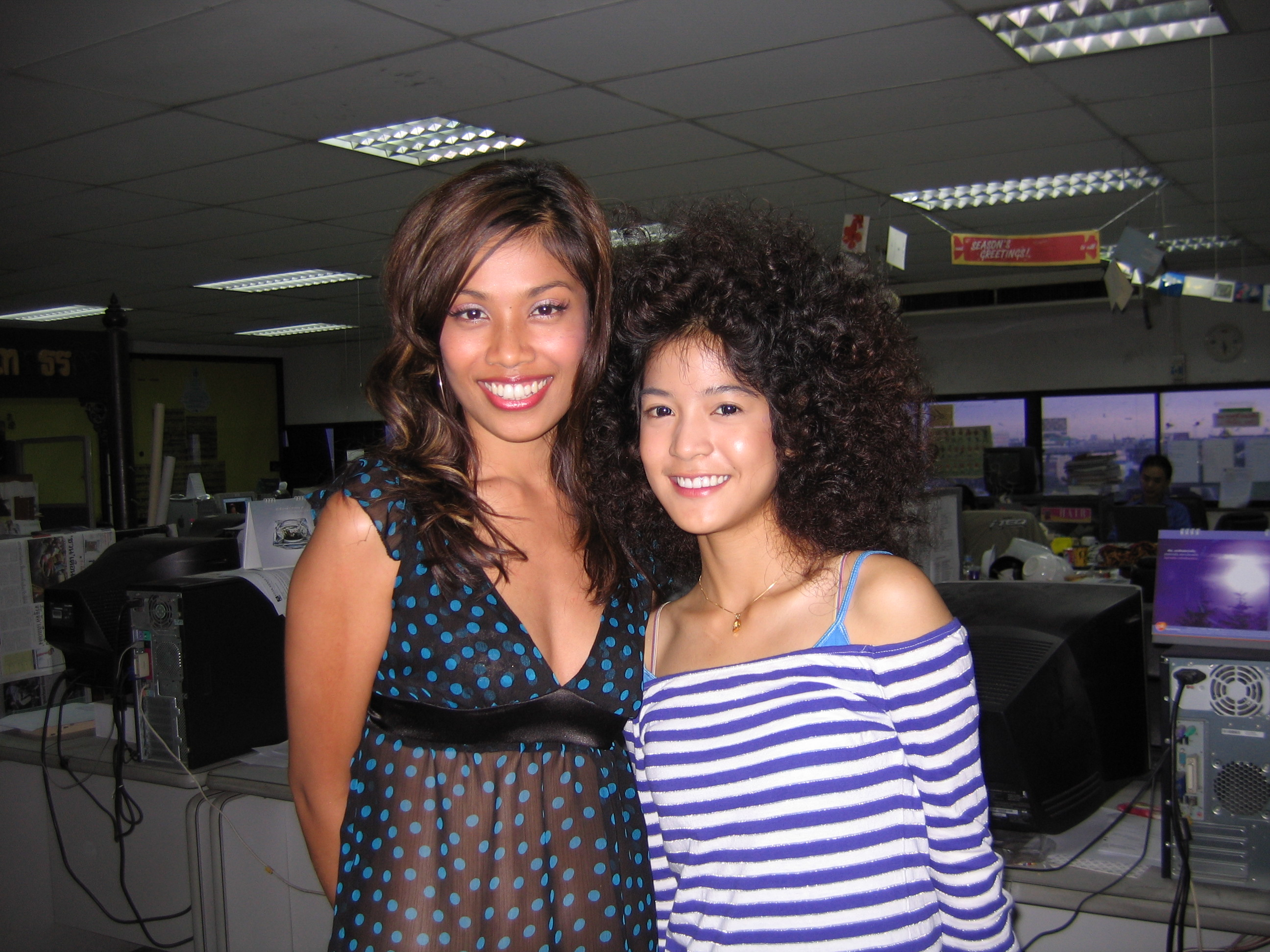 Actresses Pornthip Papanai and Apinya Sakuljaroensuk visit The Nation offices in Bangkok.